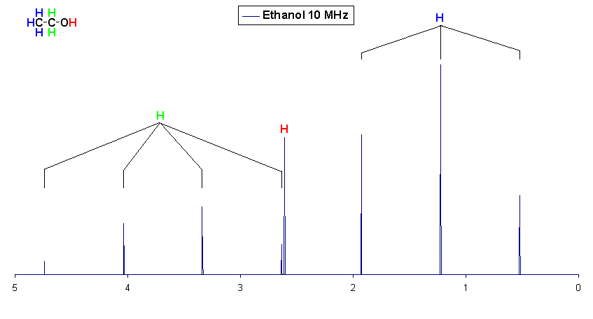 1H-NMR spectrum of Ethanol, calculated on base of the numbers present at on novembre, 14 2009. The graph is calculated in Excel. TMS=0 at 10 MHz at low resolution. In combination with C02H06O01_Ethanol_10MHz_low resolution.GIF it clearifies the need for high magnetic field in NMR.